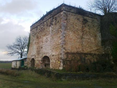 View of old limekilns of Cartravers, in La Harmoye 22320 France